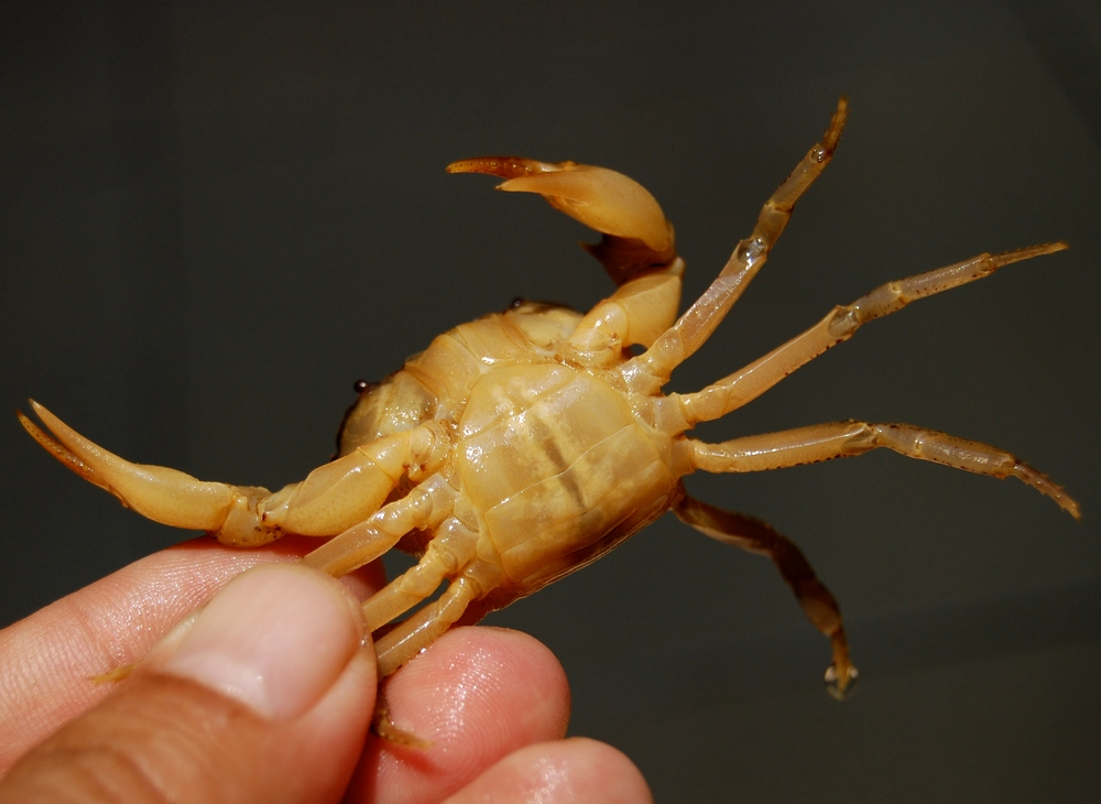 Paddyfield's crab, Parathelphusa convexa, female, ventral view. Bogor, West Java